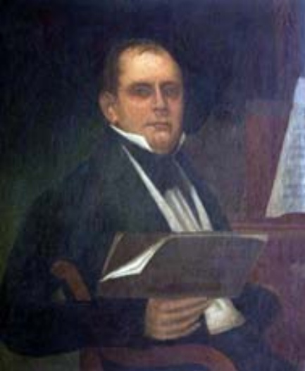 The portrait of Cuban musician Juan Federico Edelmann (1795–1848)